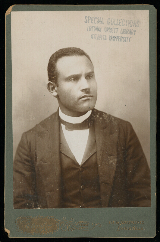 Photograph held by Robert W. Woodruff Library, Atlanta University Center, Atlanta University Photographs, box 4, folder "Cotter, Joseph."